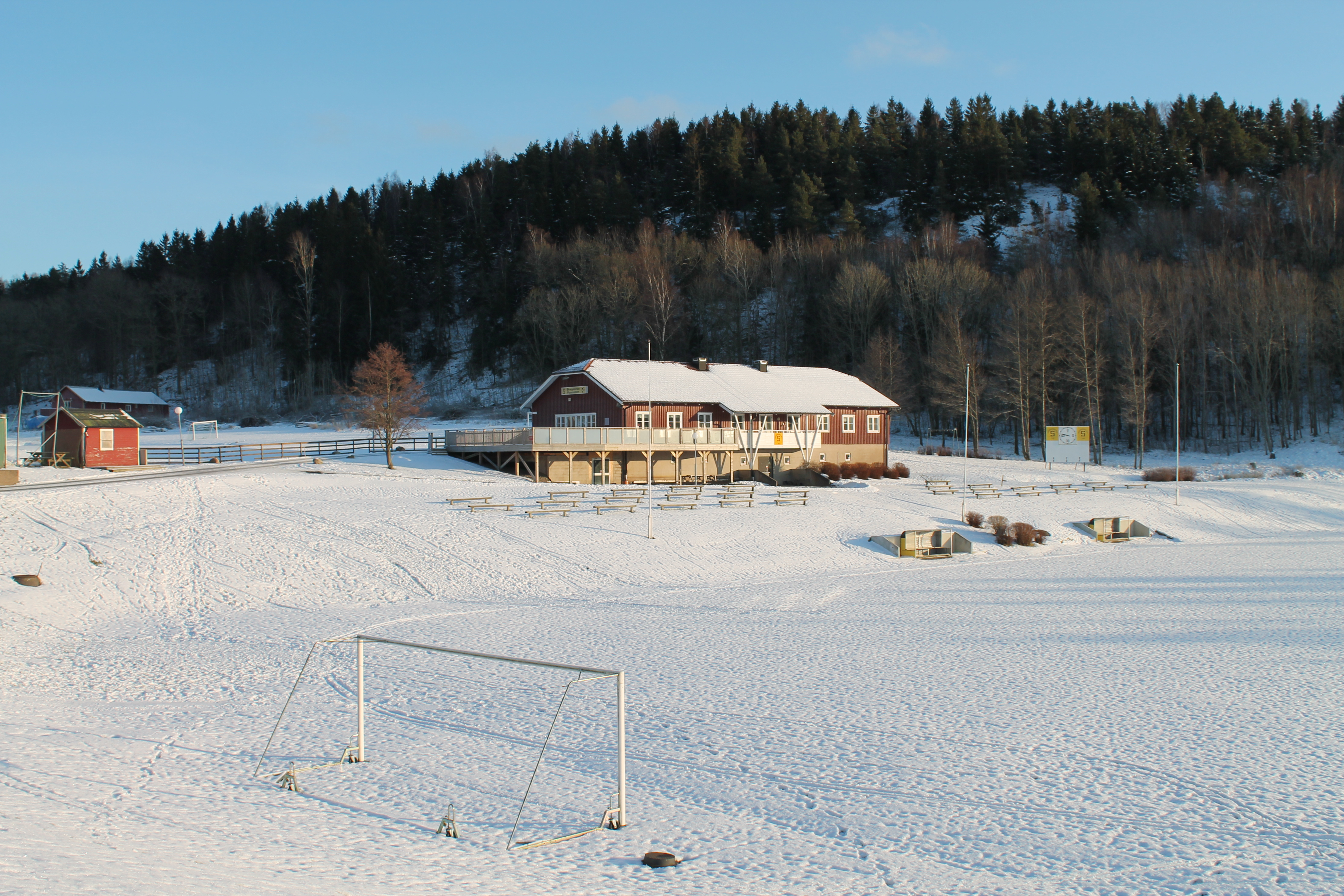 Forsvallen